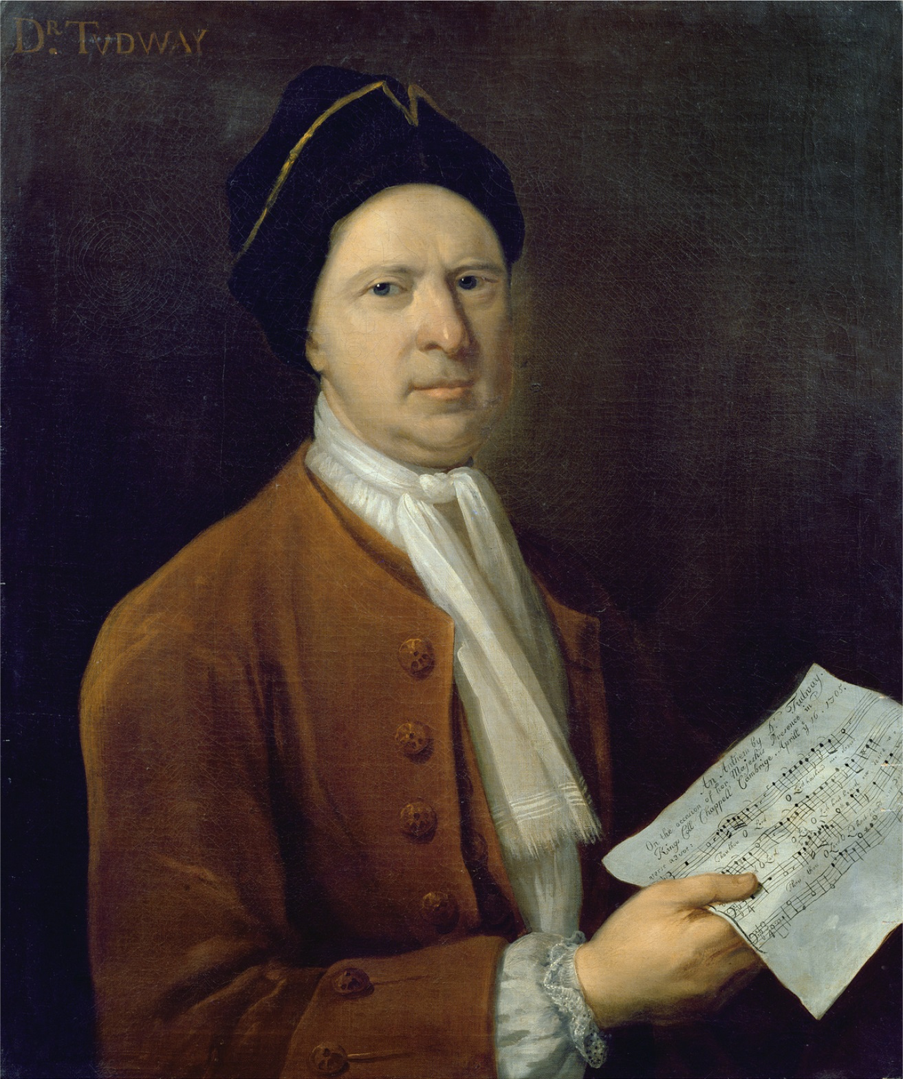 Portrait of Thomas Tudway (died 1726), English musician and composer.